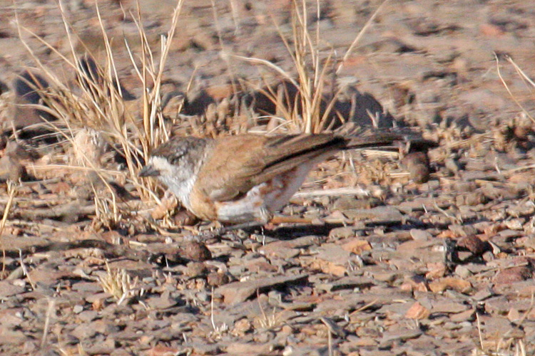 Chestnut-breasted Whiteface (Aphelocephala pectoralis), Strzelecki Track, South Australia.